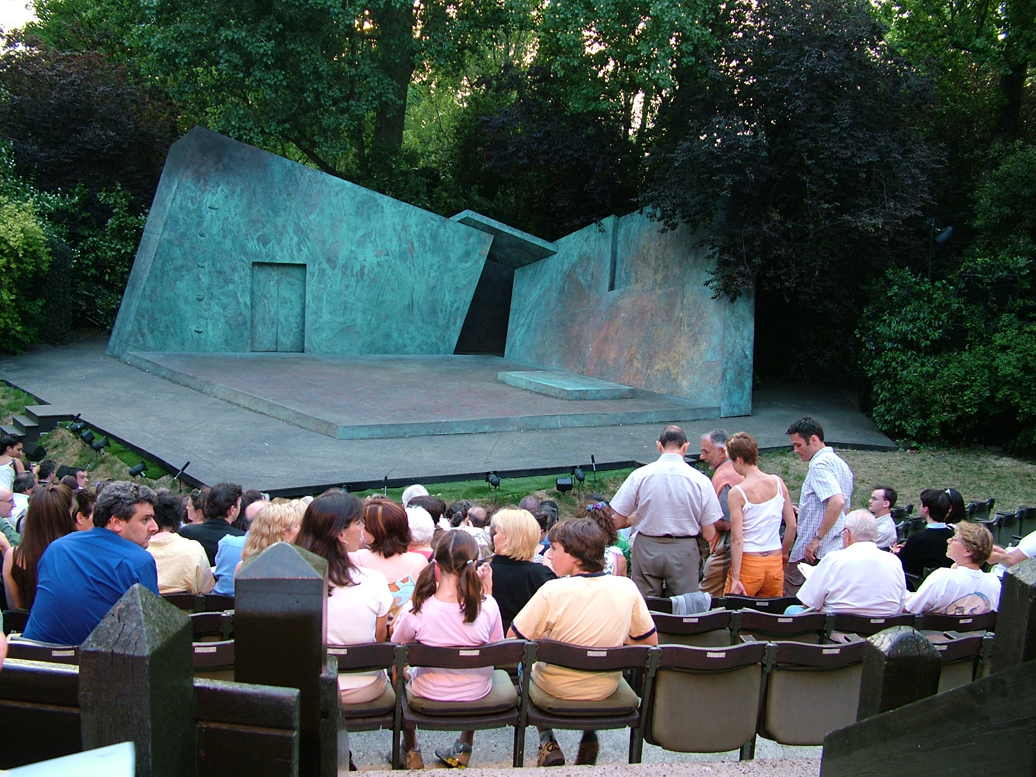 The stage at the Open Air Theatre, Regent's Park, London By and copyright Tagishsimon, 22nd June 2005